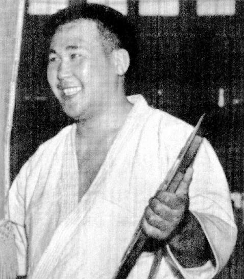 Yoshihiko Yoshimatsu, after winning the All-Japan Judo Championships in 1955.